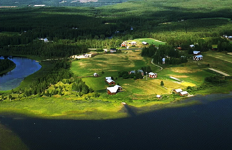 Manjärv lake and village in Älvsbyns municipality, Norrbotten county, Sweden